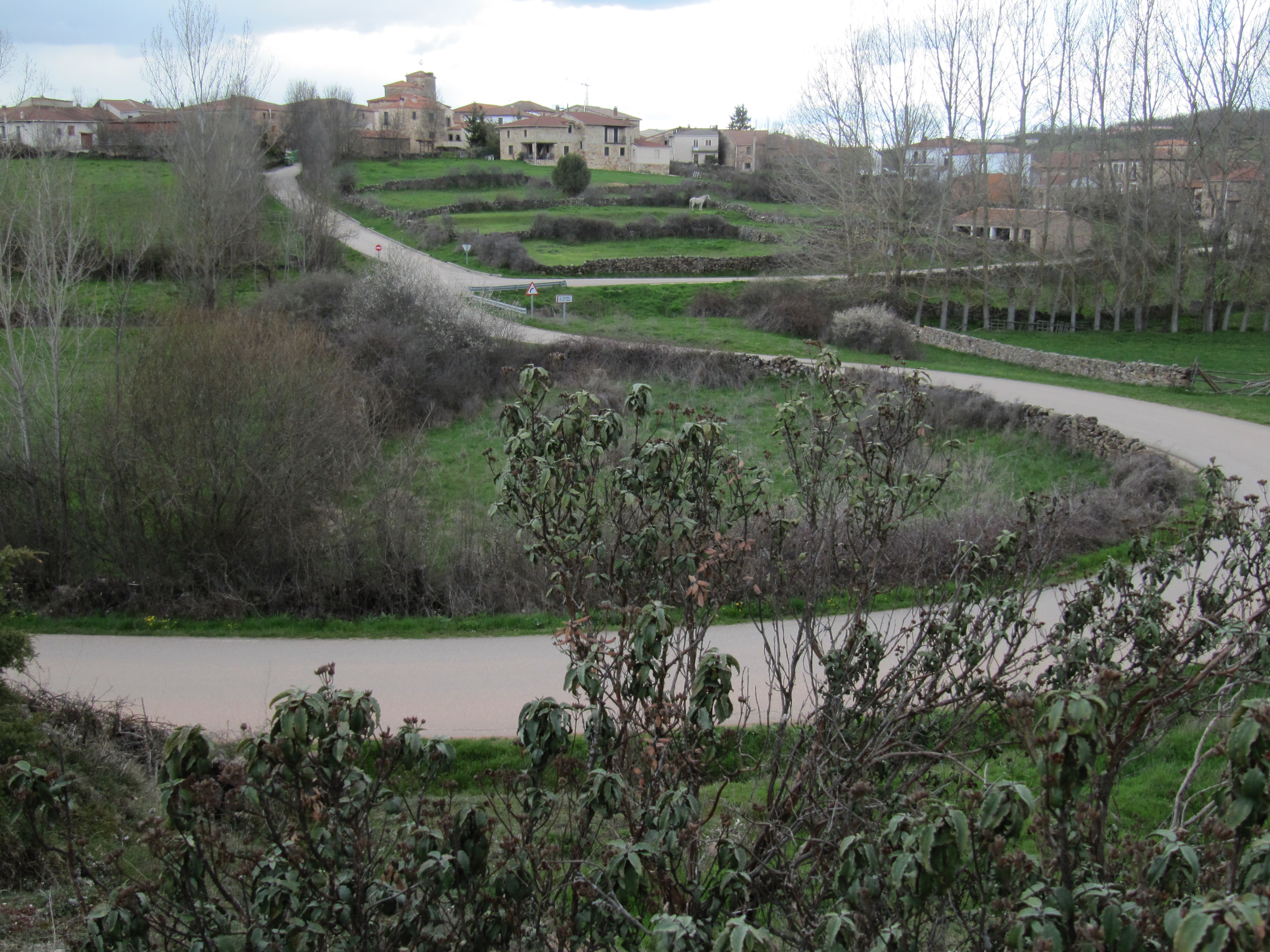 Camino hacia la Aldea del Pinar, Hontoria del Pinar